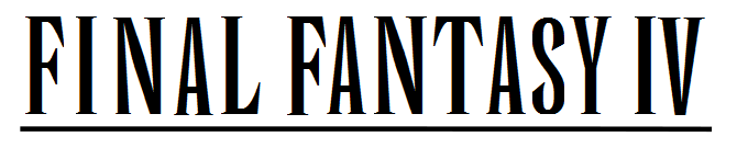 Final Fantasy wordmark created using Runic MT Condensed font. Trademarked by Square Enix.